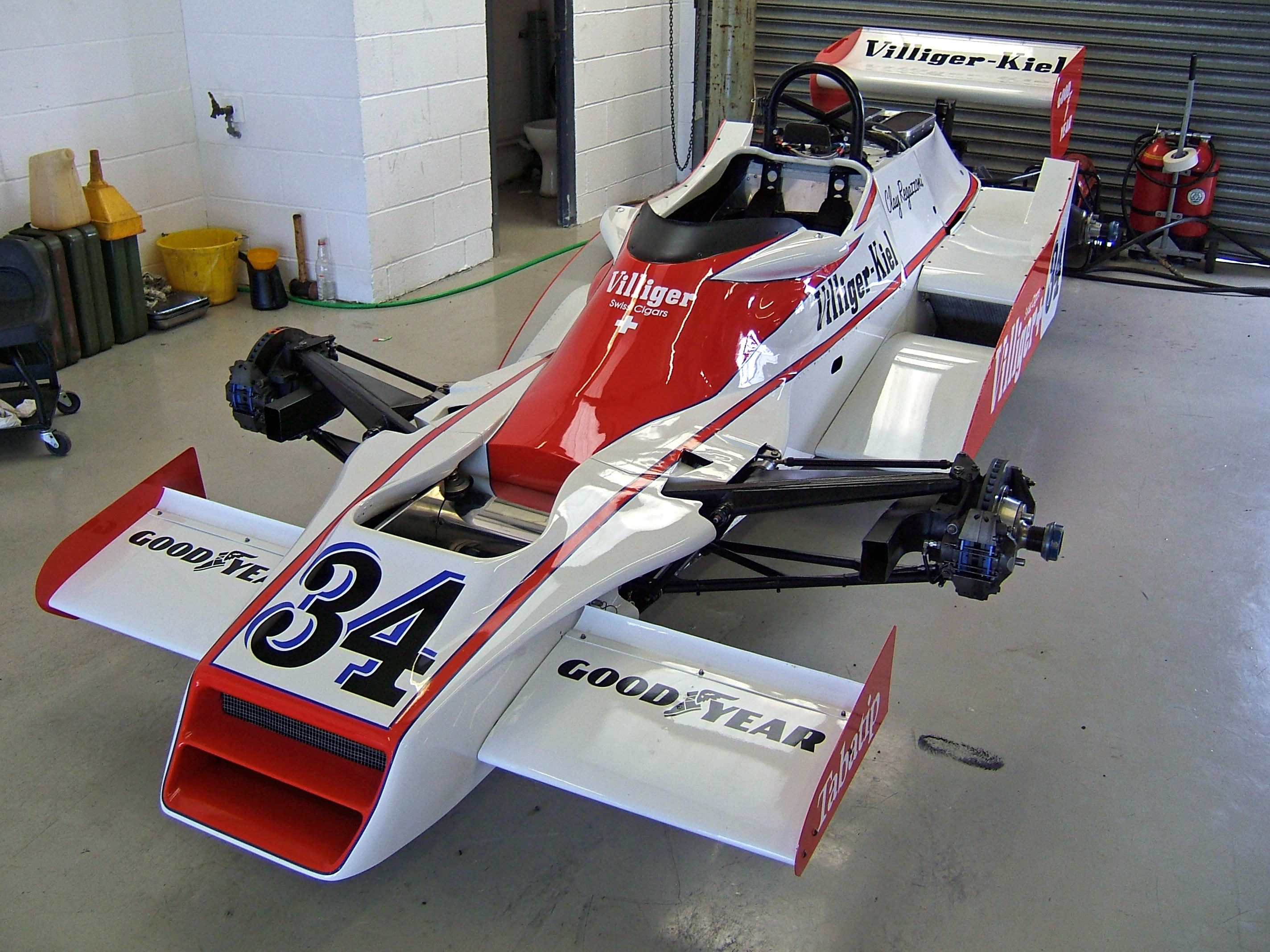 A Shadown DN9 Formula One car, on stands, minus wheels, in the pit garages at Silverstone, during the Silverstone Classic race meeting, July 2007.